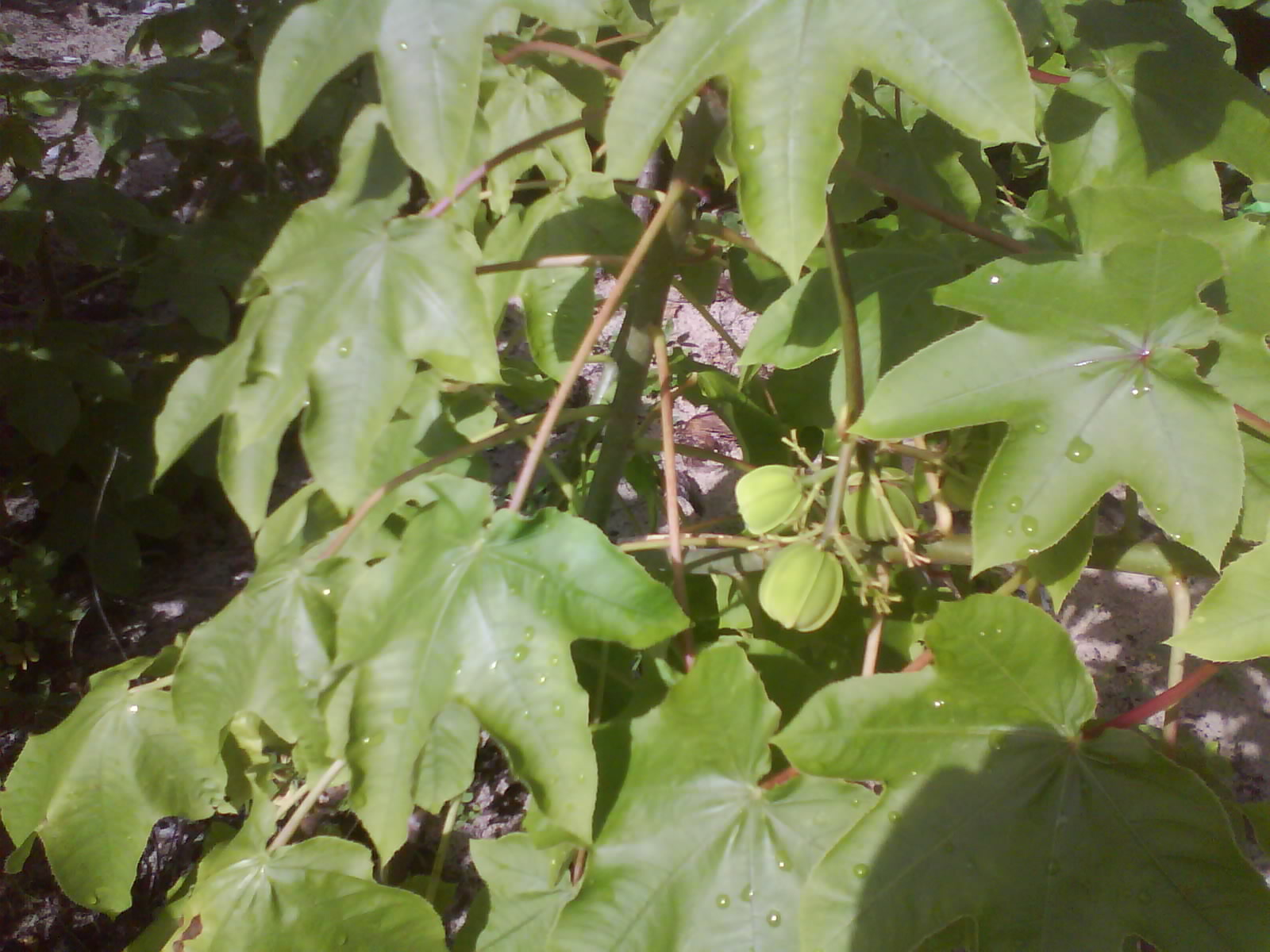 Leaves and fruits of pinhão-bravo, caatinga plant